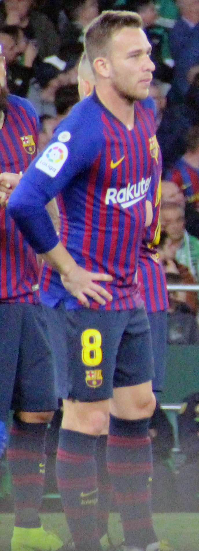 Arthur Melo playing for FC Barcelona vs Real Betis, 17/03/2019